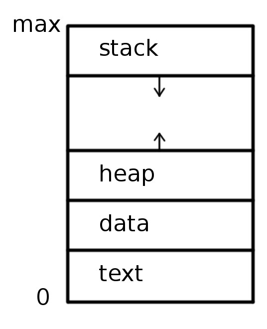 A process is a program in execution. The figure shows the structure of a process in memory. It includes the text section (program code), the process stack, which contains temporary data (such as function parameters, return addresses, and local variables), a data section, which contains global variables and a heap, which is memory that is dynamically allocated during process run time. After Abraham Silberschatz, Baer Galvin, Greg Gagne, Operating System Concepts, Ninth Edition, 2013, p. 106.